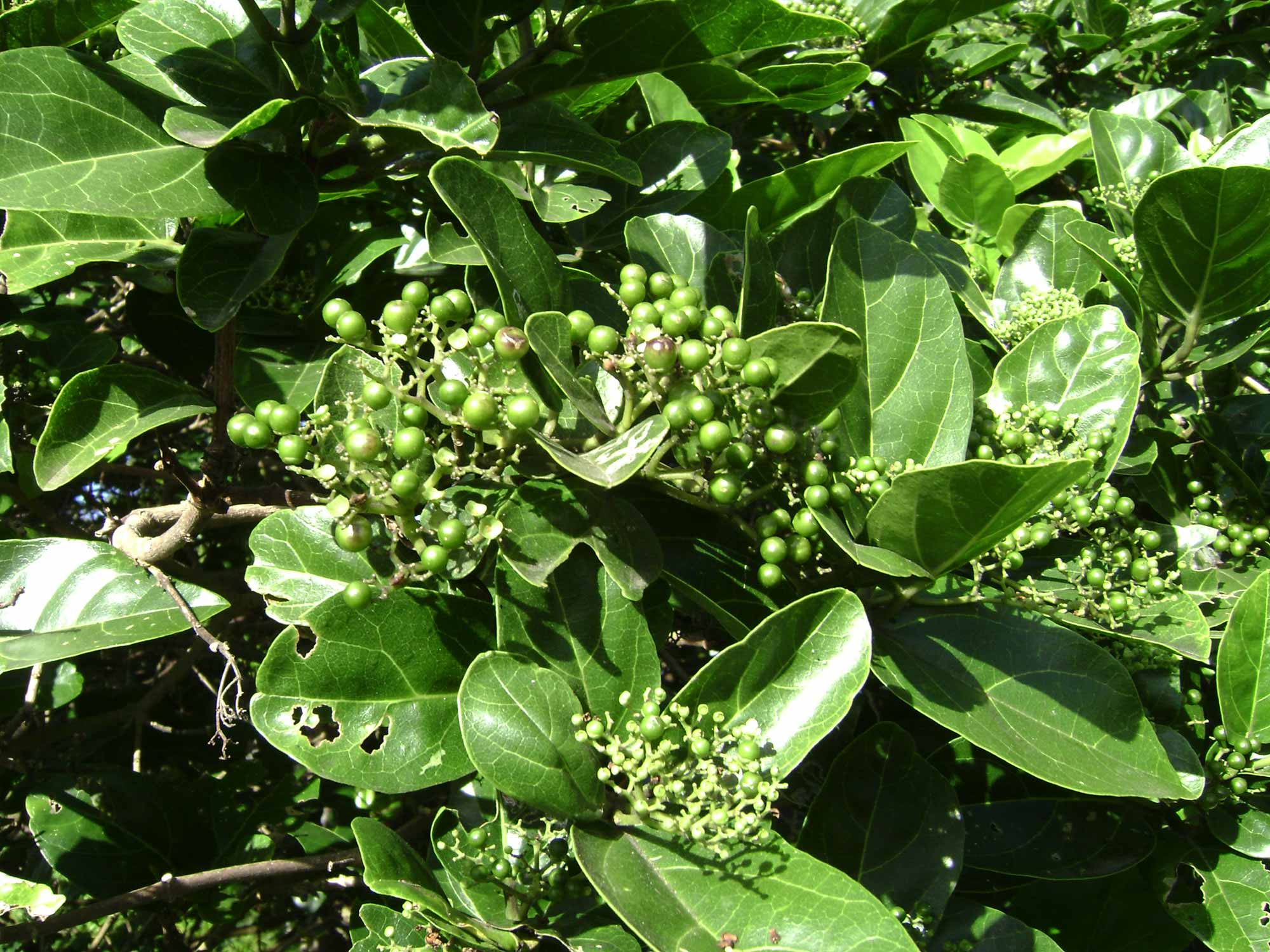 Premna serratifolia, leaves, flowers, young fruits; (volovalo) medicinal tree in a Tongan garden